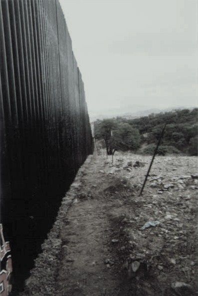 Steel barrier wall near the Mariposa port of entry in Nogales, Sonora state, Mexico. Photo looks northeast from Sonora toward Arizona.